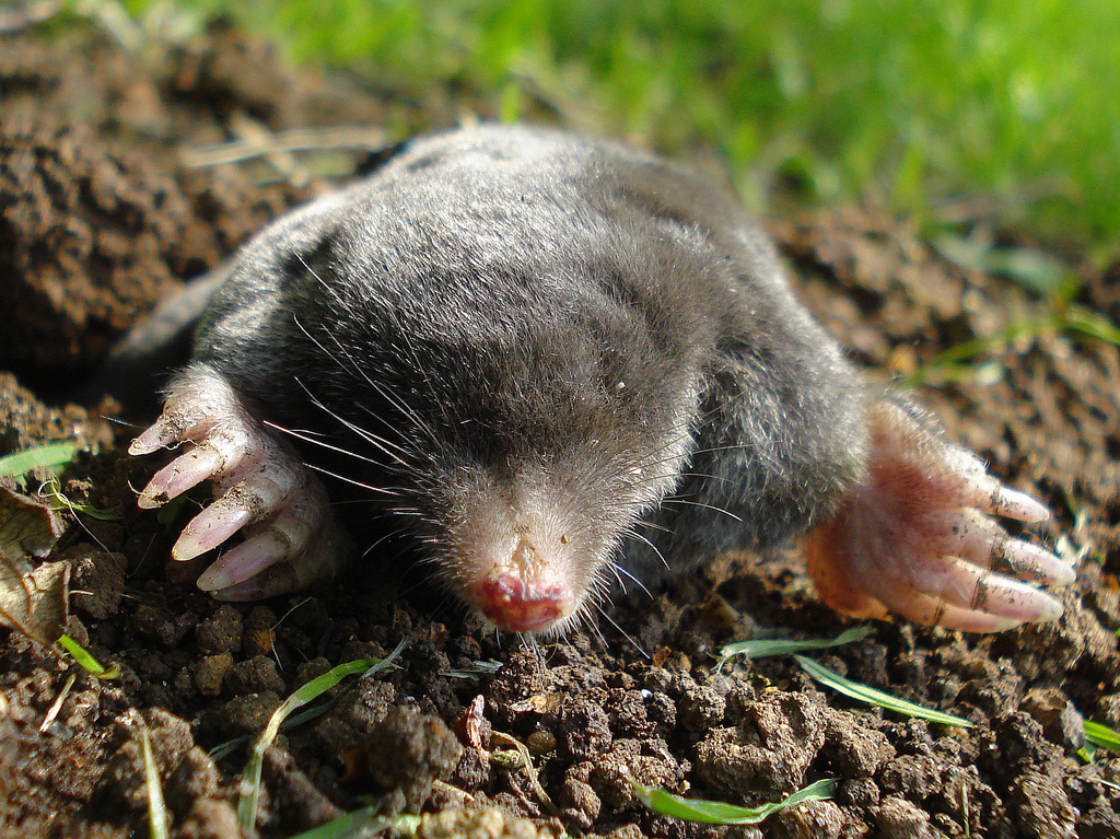 European Mole, rained out.Talpa europaea